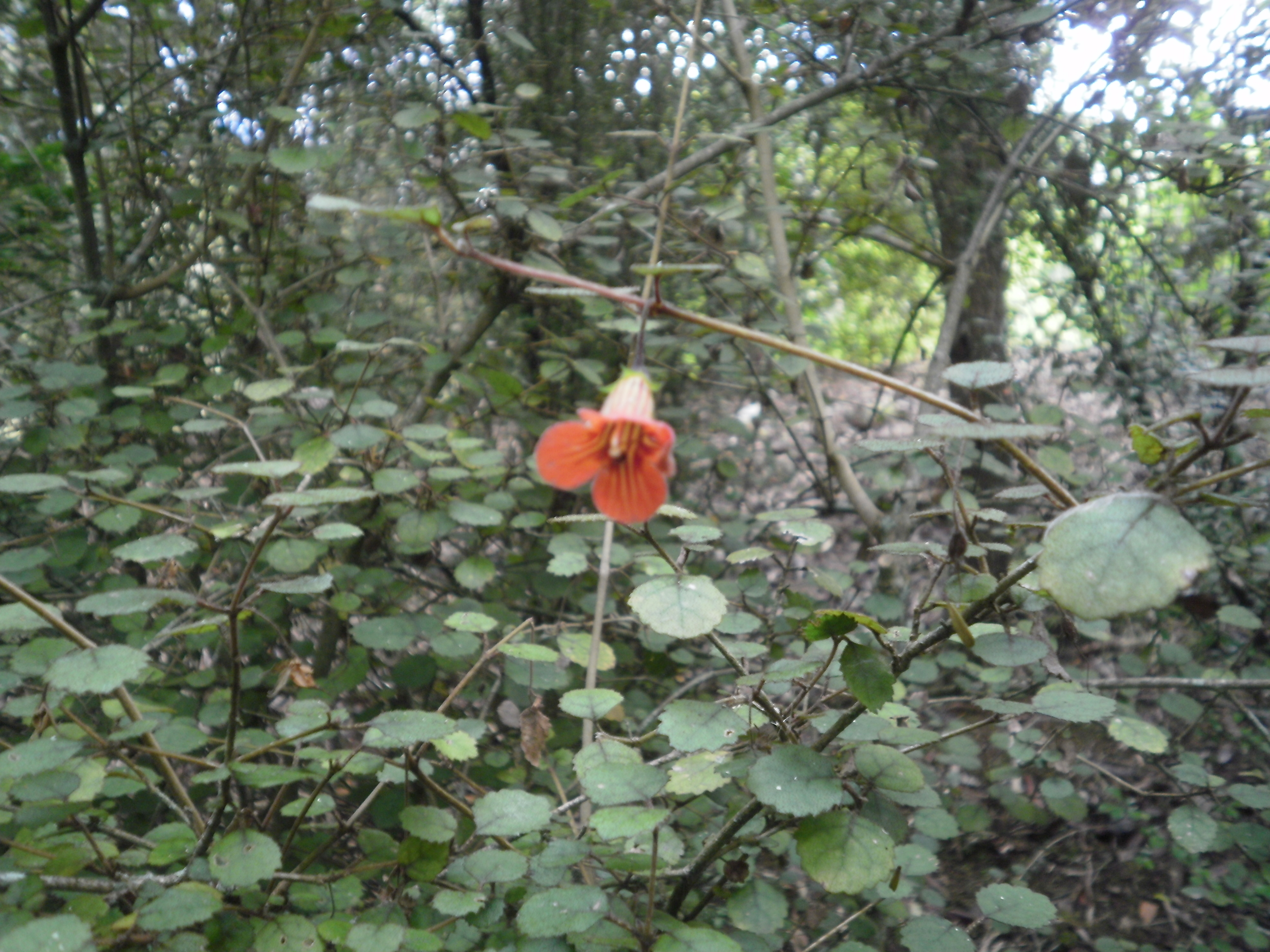 Rhabdothamnus solandri, taurepo, matata, in flower at Nga Manu Nature Reserve, Waikanae, New Zealand